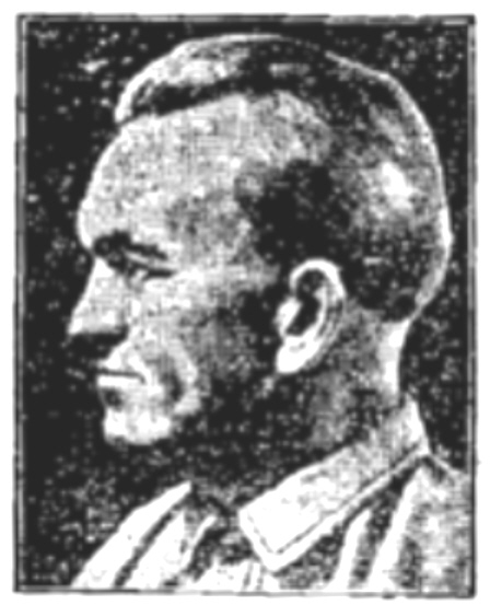 Thomas Mooney (1882-1942), American socialist